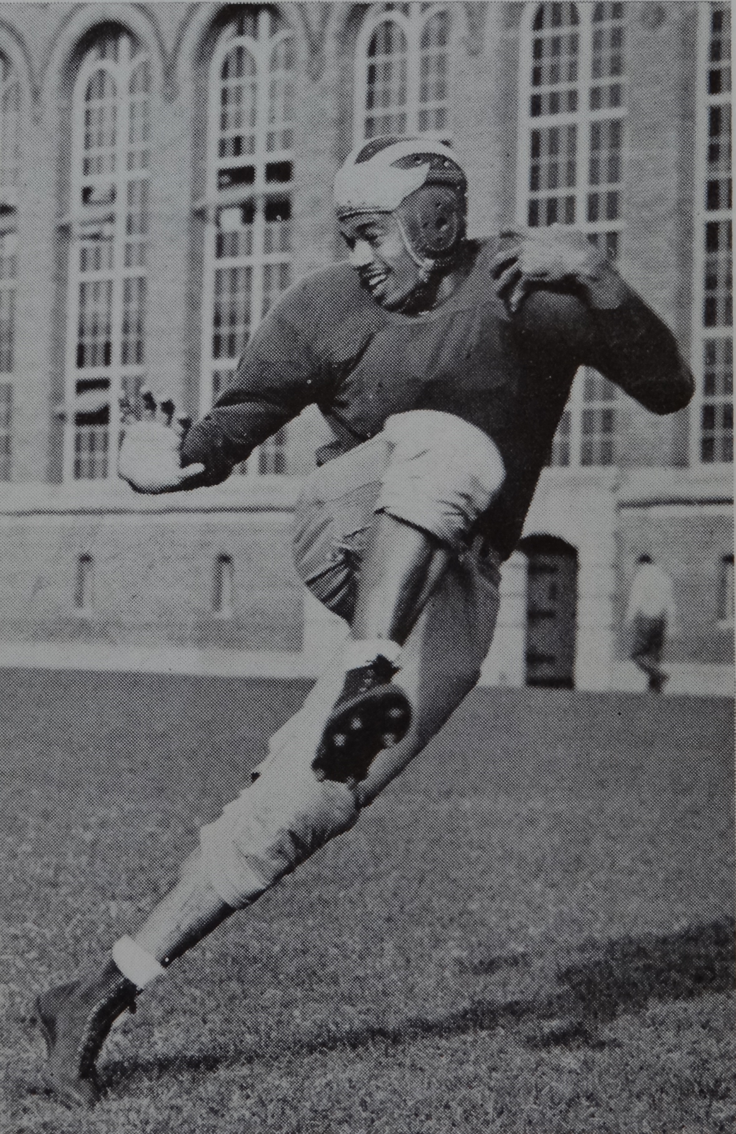 Photograph of University of Michigan football player Bob Mann